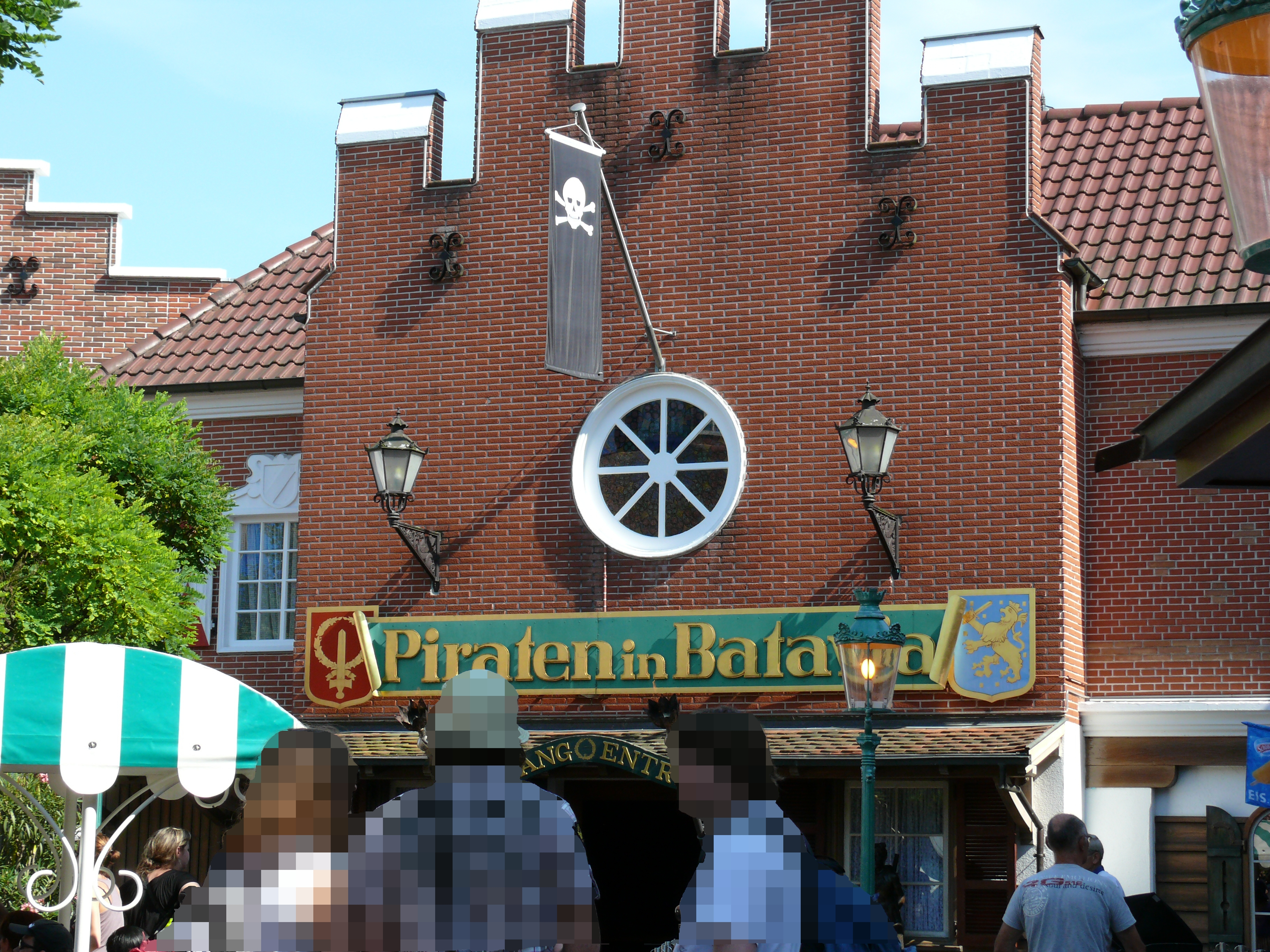 Pirates in Batavia Entrance Europa-Park Rust